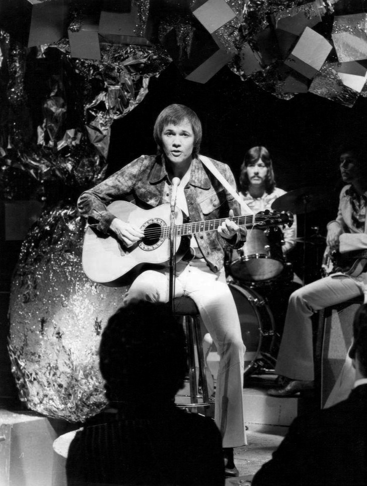 Photo of David Gates and Bread performing on the television program Hotel Ninety. The band broke up later in this year, 1973.